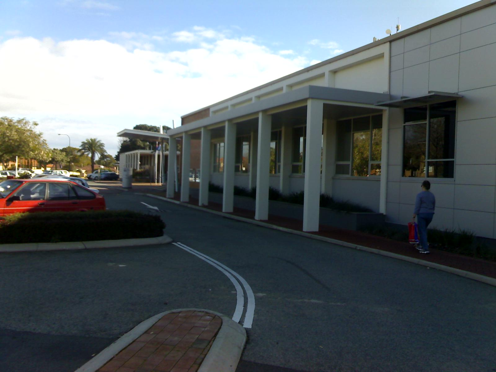 City Of South Perth Council Chambers